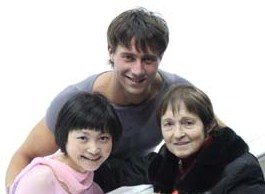 Yuko KAWAGUCHI and Alexander SMIRNOV by the boards with coach Tamara Moskvina at the 2007-2008 Grand Prix Final